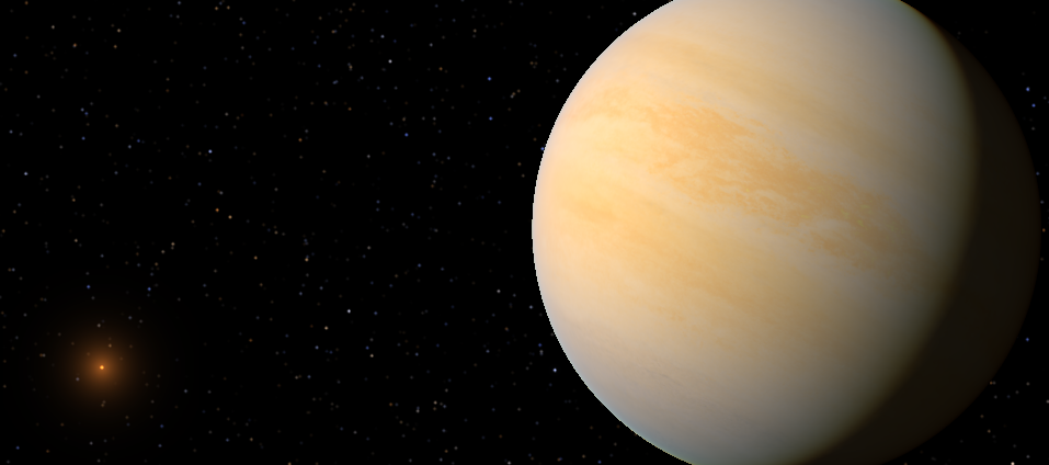 Planet Gamma Cephei Ab and star Gamma Cephei B in the background as rendered by Celestia.